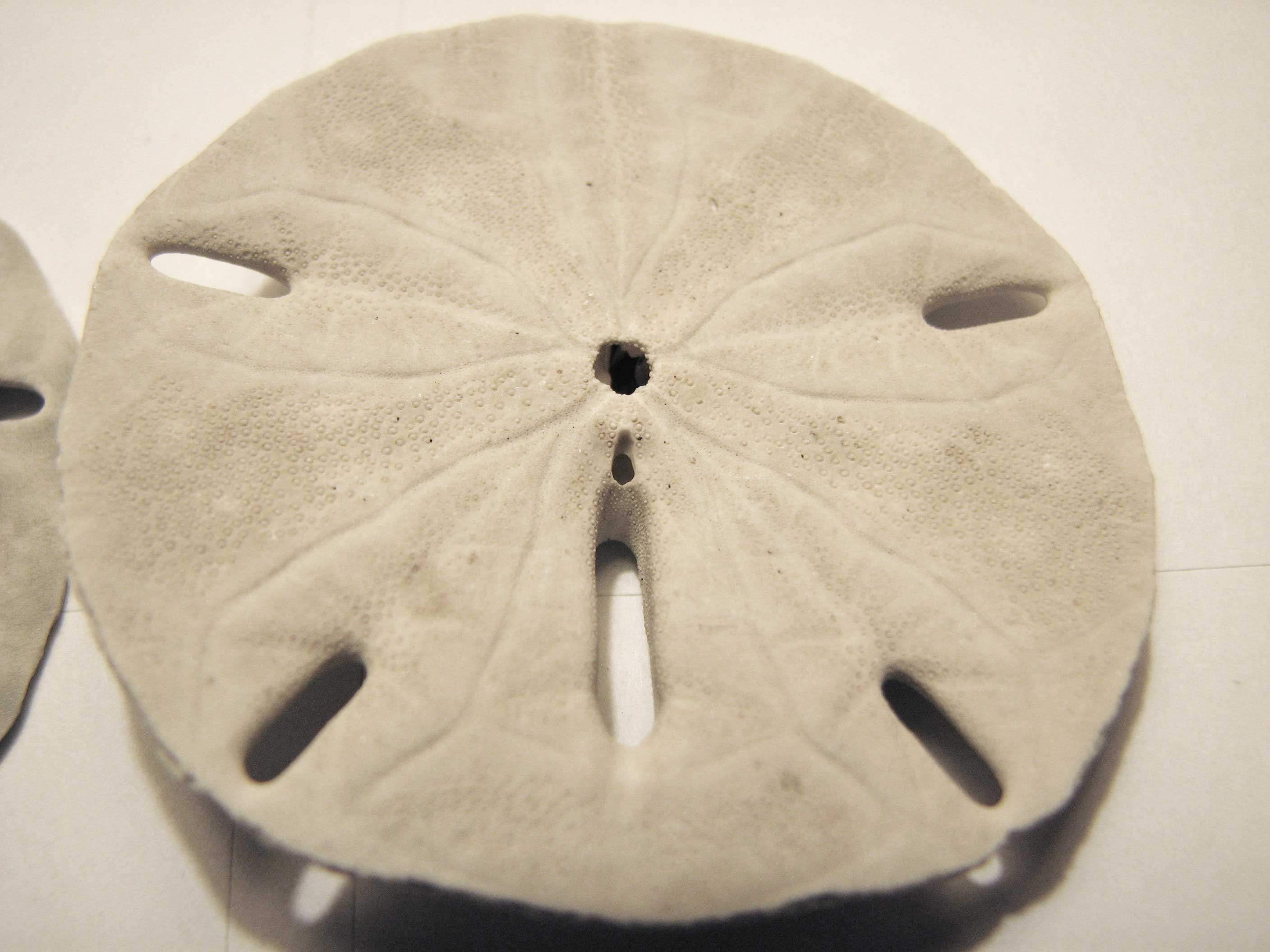 Underside of the Keyhole Sand Dollar, Mellita quiquiesperforata. Hundreds of tube feet used in locomotion and known as Podia. Mouth and anus of sand dollar located in center. Photograph by Sharon Mooney, 2006, Keyhole Sand Dollar